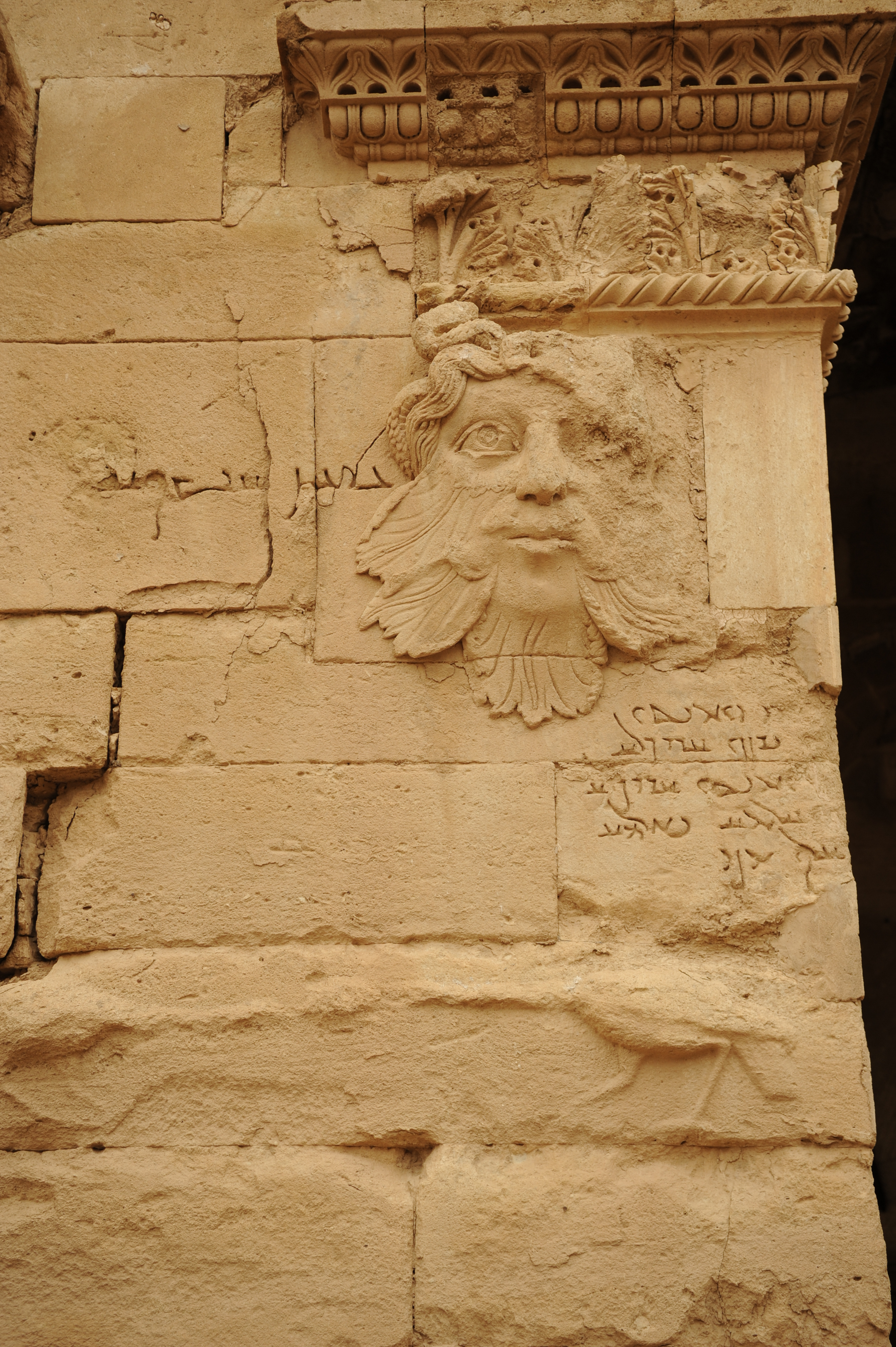 Members of the Provincial Reconstruction Team and representatives of United Nations Educational, Scientific, and Cultural Organization visit what once was a maeeting hall in the Shrine of Hatra, in Hatra, Iraq, Nov. 20. Hatra is one of three areas in Iraq that is a World Heritage site. UNESCO works to create the conditions for genuine dialogue based upon respect for shared values and the dignity of each civilization and culture. (11.20.2008)